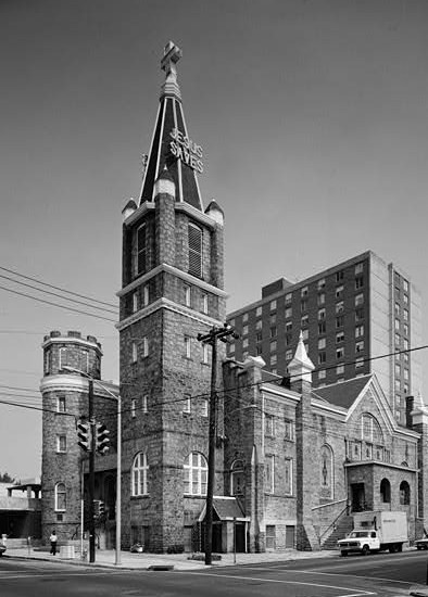 Big Bethel African Methodist Episcopal Church (Atlanta, Georgia) (cropped)